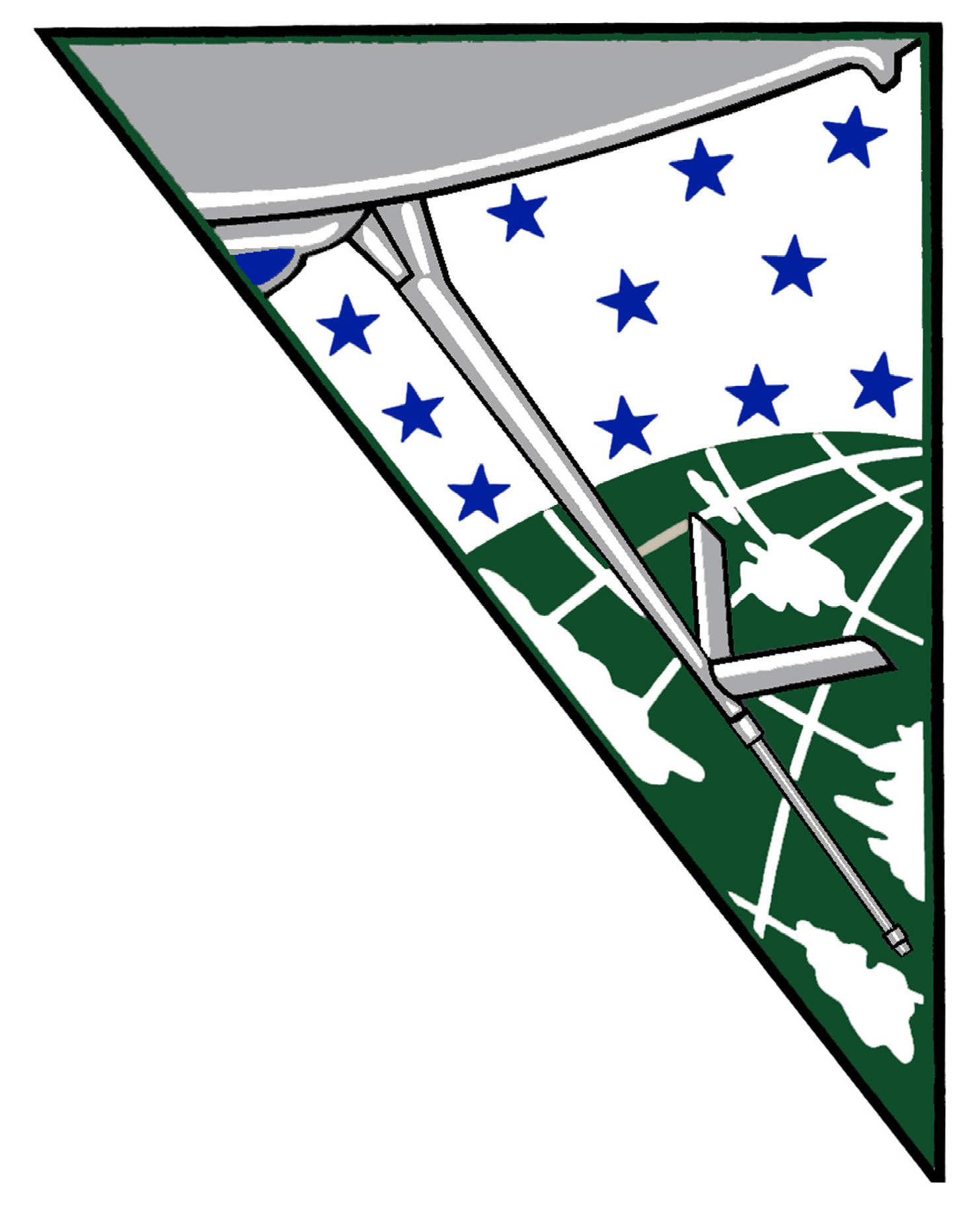 11th Air Refueling Squadron emblem